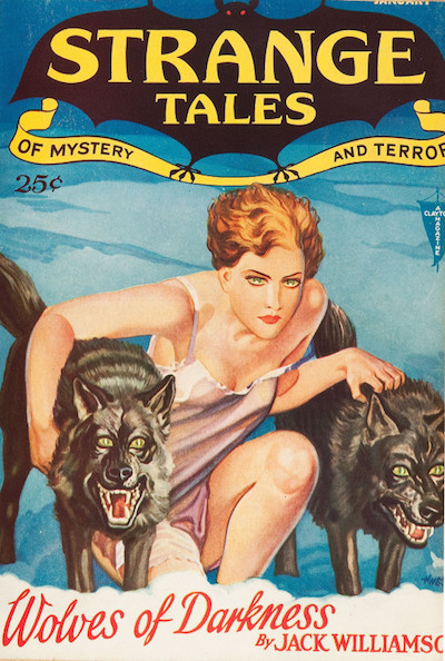 Strange Tales of Mystery and Terror (January 1932). Defunct publisher. Cover art by Wesso (Hans Wessolowski).